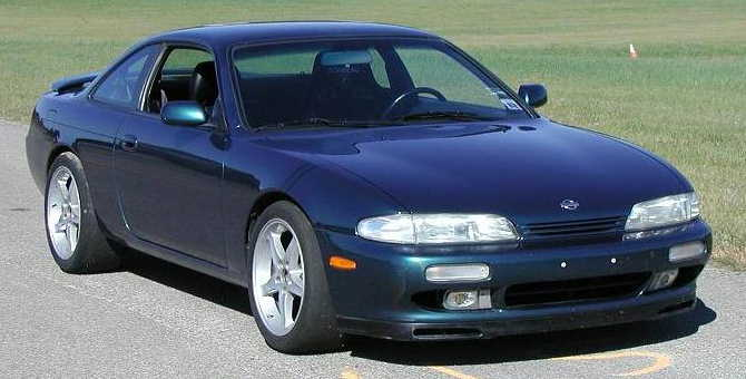 An SE Model with aftermarket rims